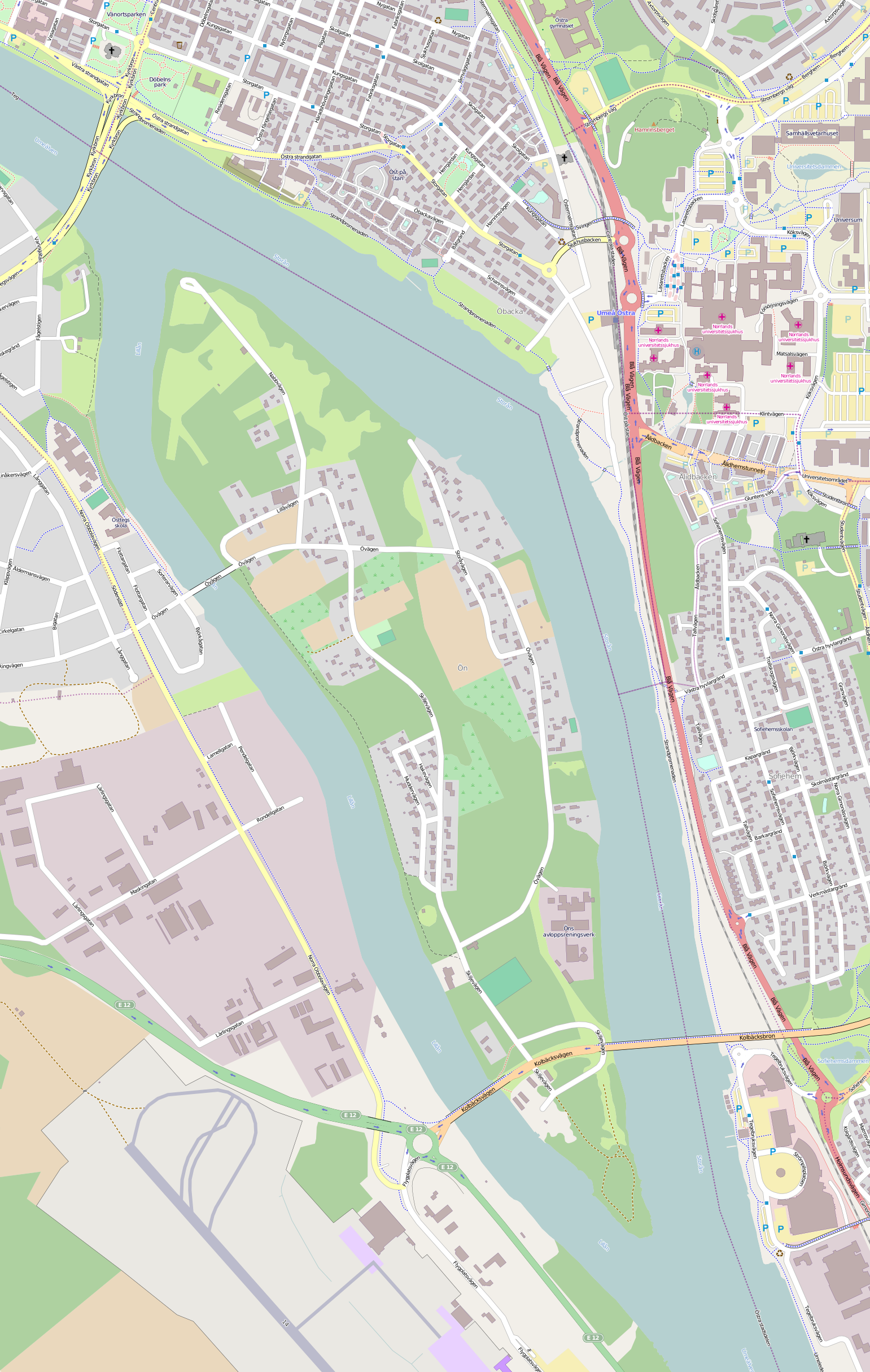 This map of Ön in the Ume River was created from OpenStreetMap project data, collected by the community. This map may be incomplete, and may contain errors. Don't rely solely on it for navigation.